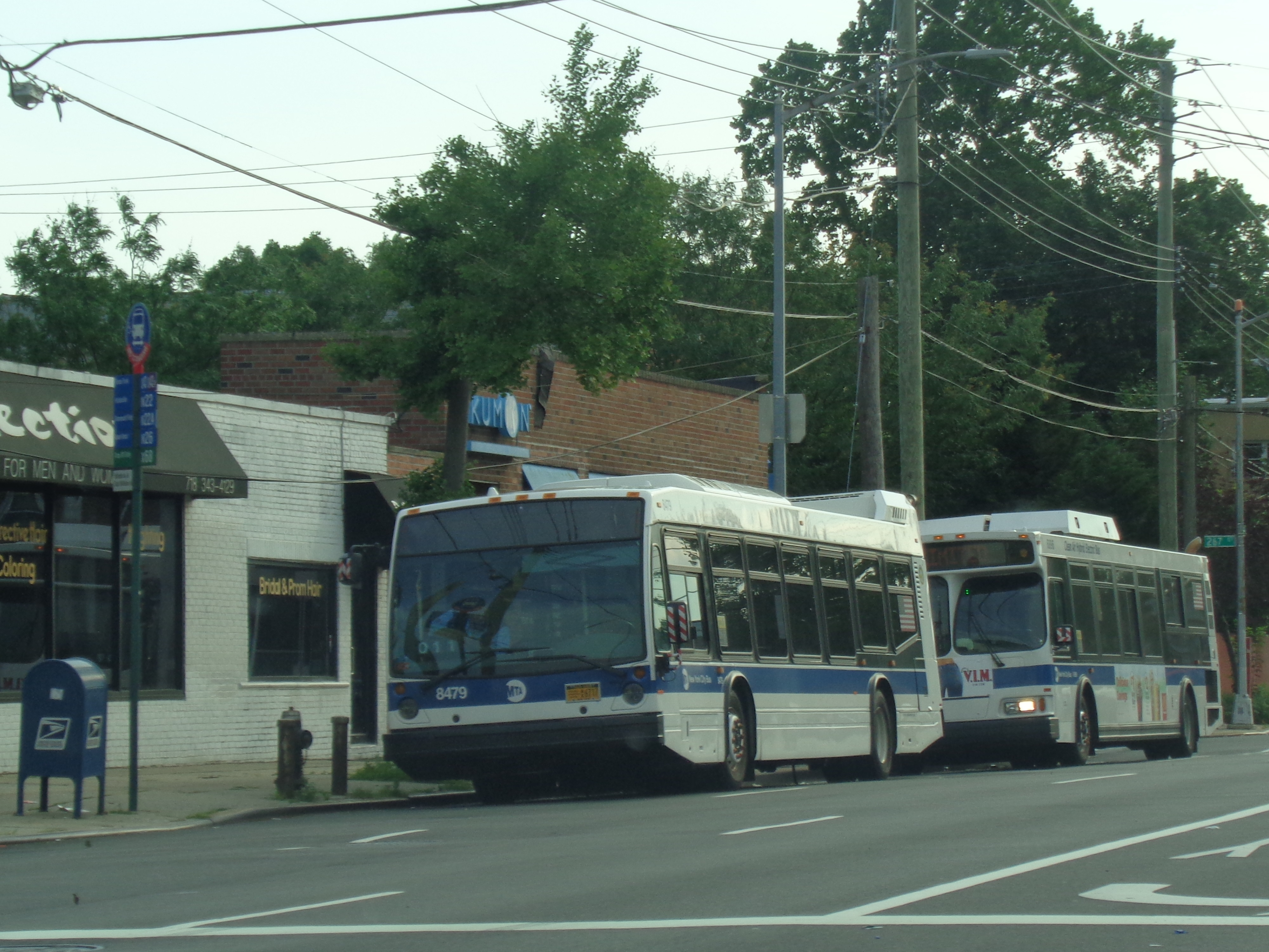 Two Q43 buses terminated at Hillside Avenue and 268th Street in Floral Park, Queens.